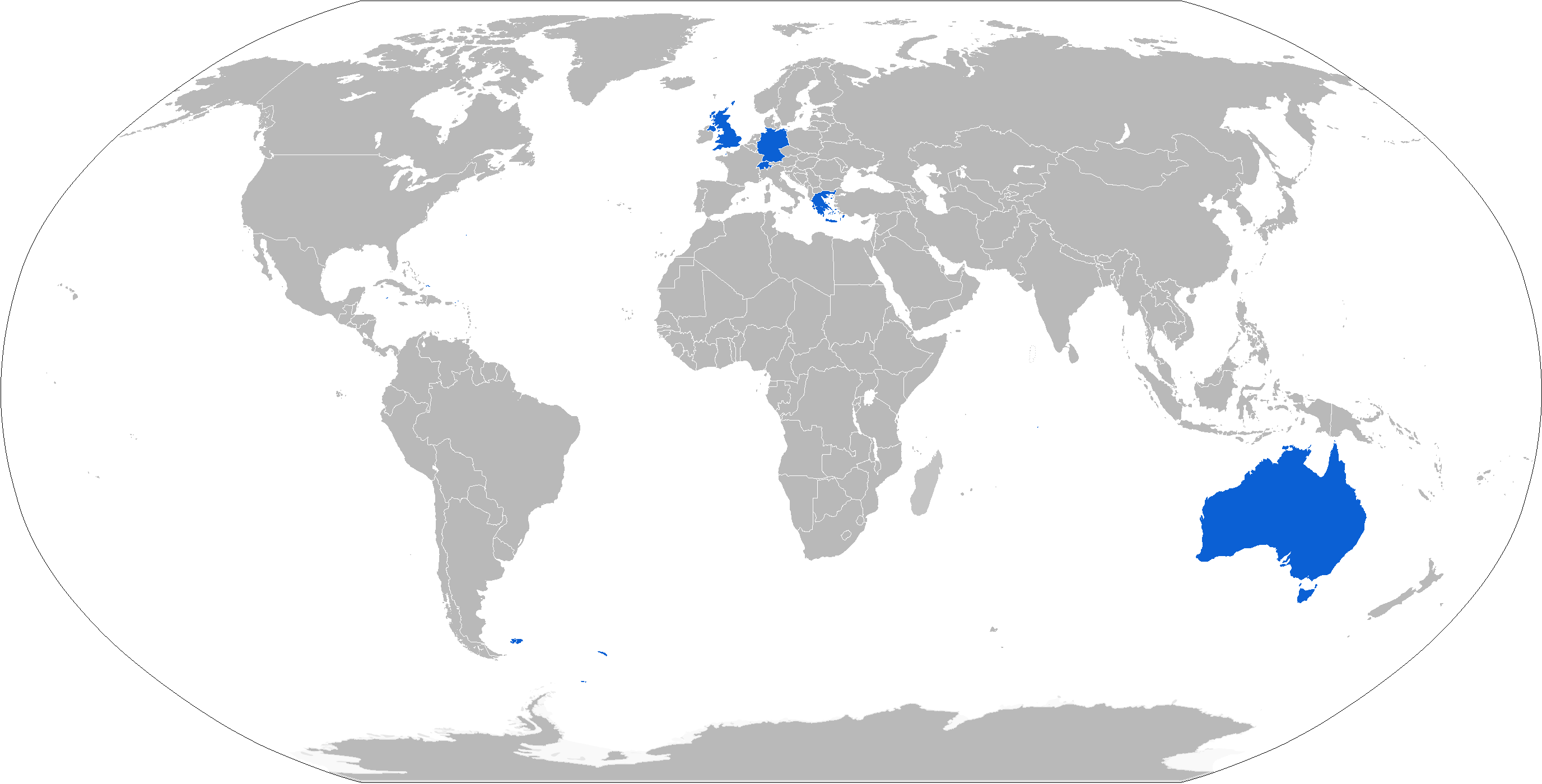 Map with SMArt 155 operators in blue with former operators in red